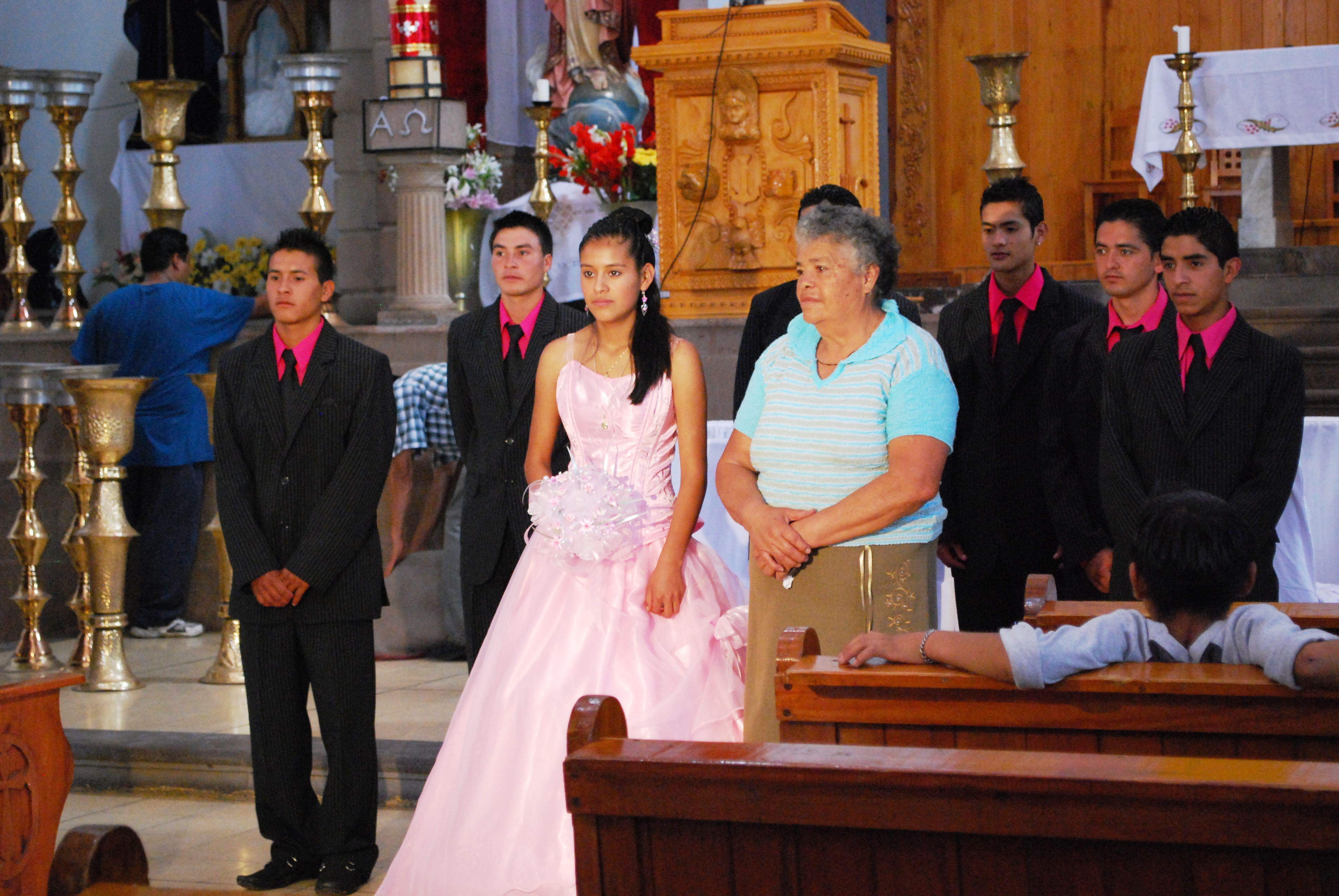 Girl at her quinceañera in the San Francisco de Asís church in Valle de Bravo, Mexico